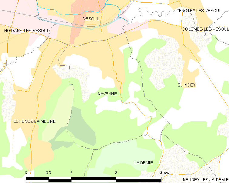 Map of French municipality